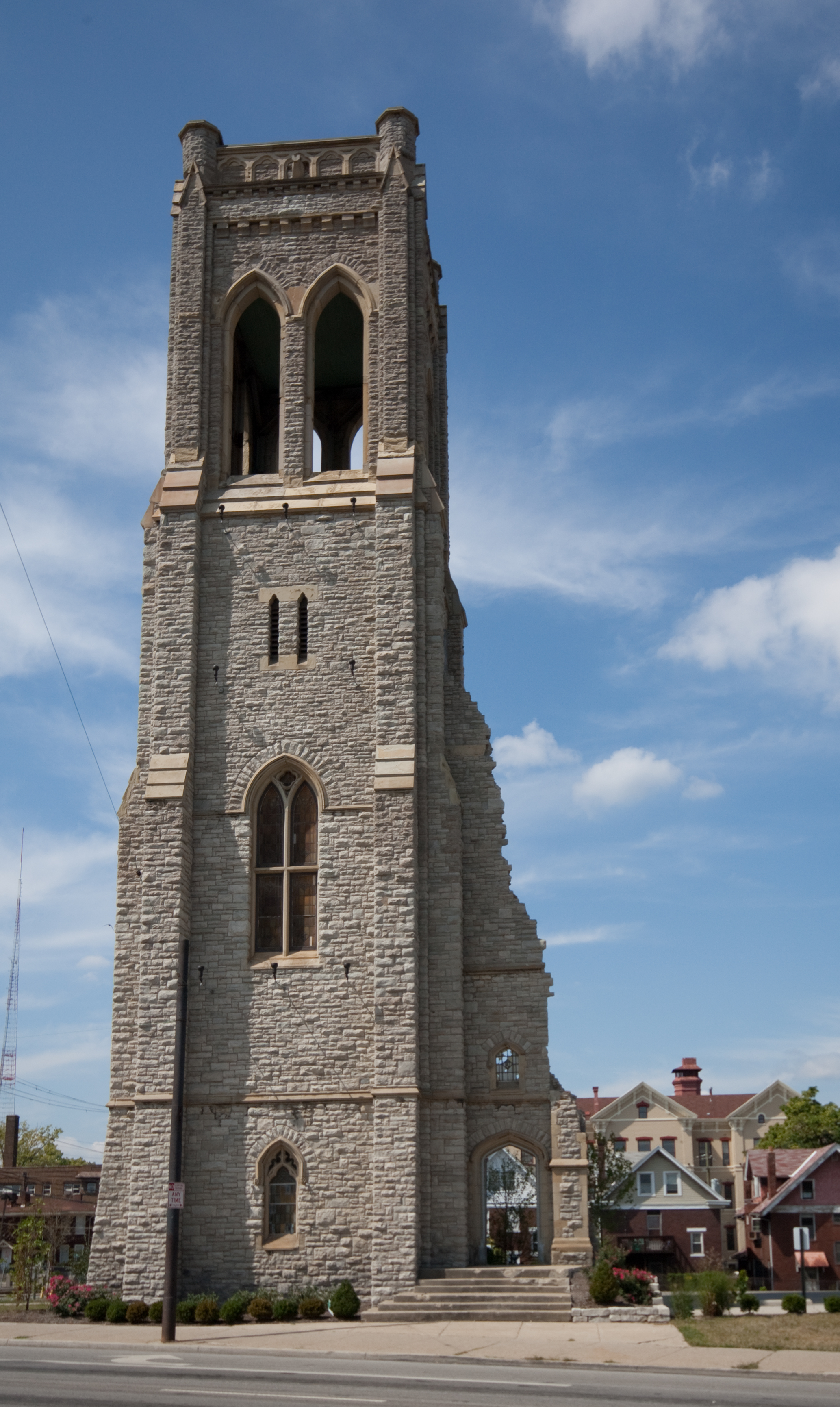 Eastern side of the tower of the Walnut Hills United Presbyterian Church, located at 2601 Gilbert Avenue in the Walnut Hills neighborhood of Cincinnati, Ohio.